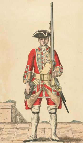 Soldier of the 49th regiment (1742)